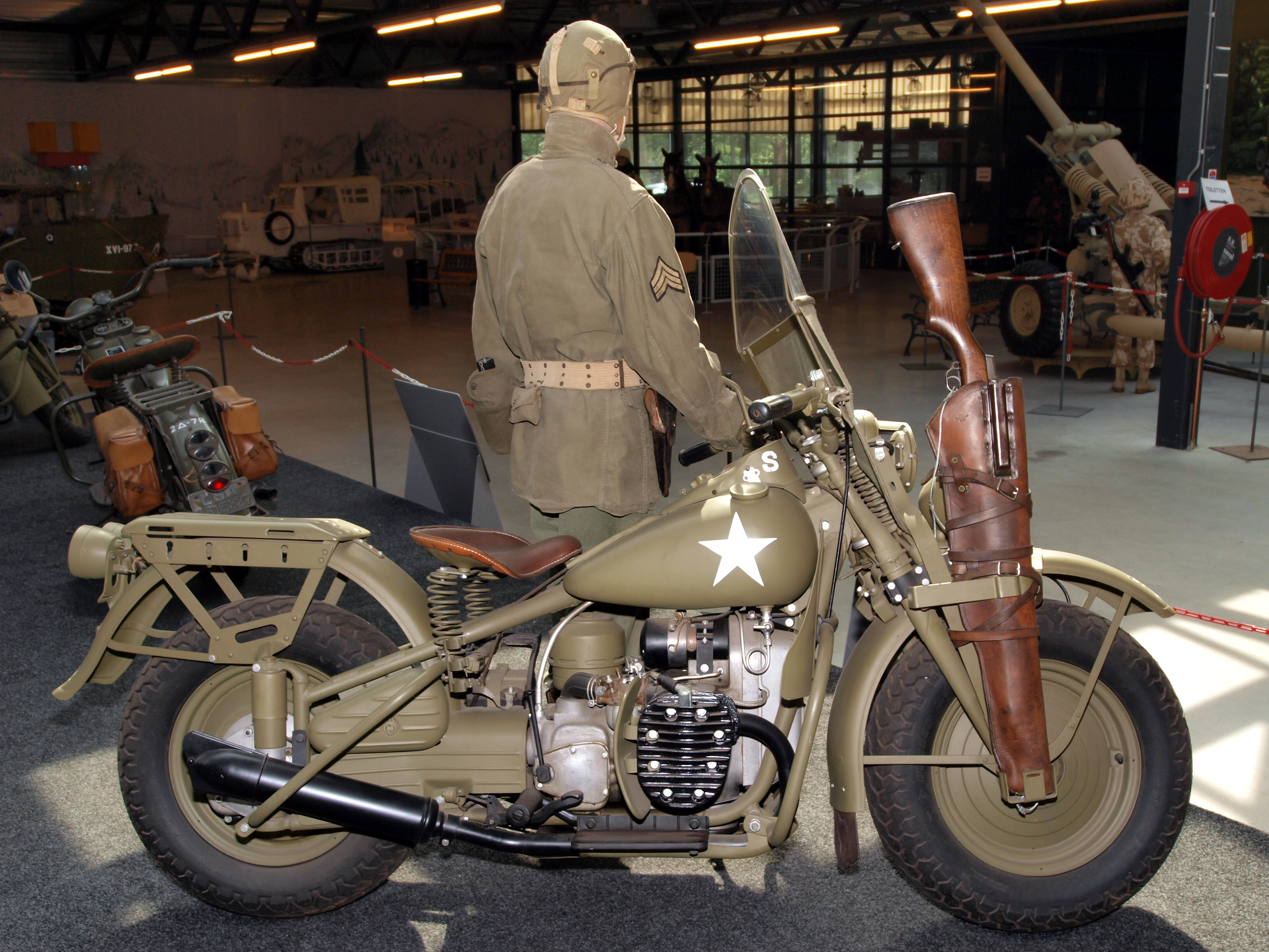 Photographed at the Marshallmuseum - Liberty Park - Oorlogsmuseum Overloon, The Netherlands. OLYMPUS DIGITAL CAMERA